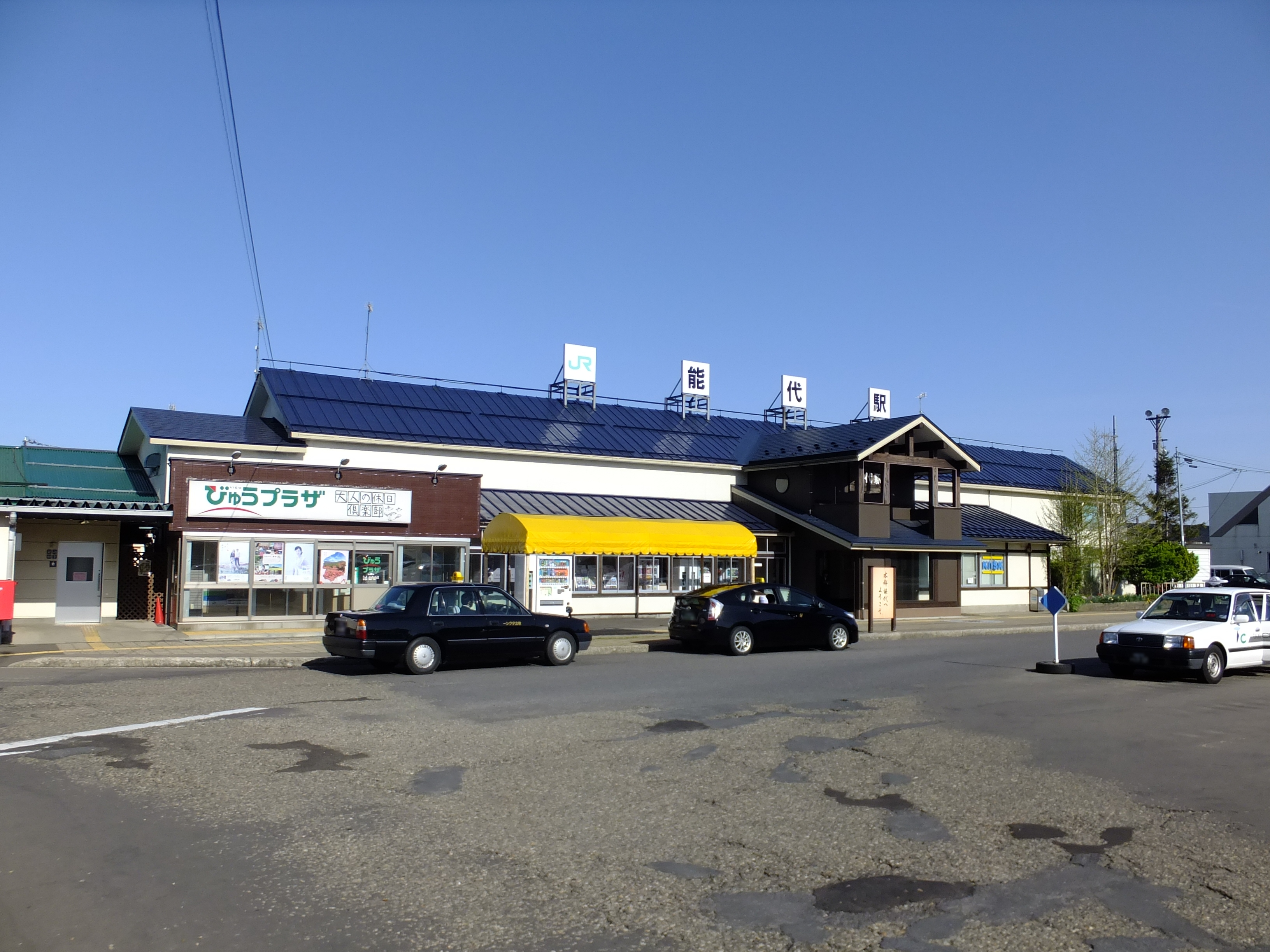 Noshiro train station on the Gonō Line, in Noshiro City, Akita, Japan